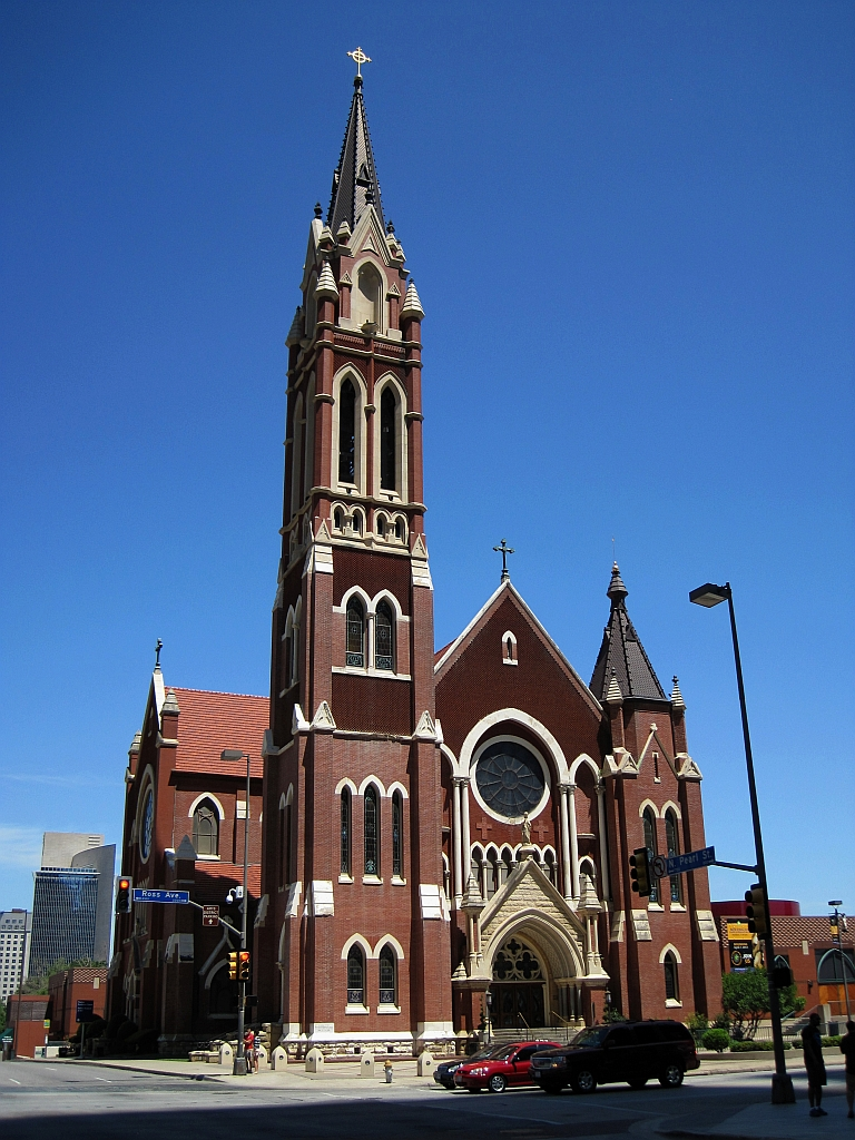 Churches in Dallas, Texas.